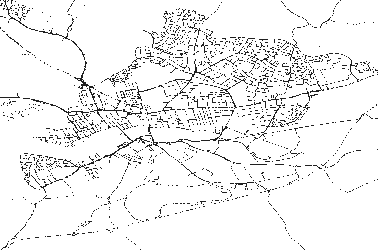 OpenStreetMap cut-out (or derivative work based on it): without further description This cut-out may be incomplete, and may contain errors, or may be obsolete. Don't rely solely on it for navigation. See the image in the present state and its original context on the OpenStreetMap wiki page for Bedford